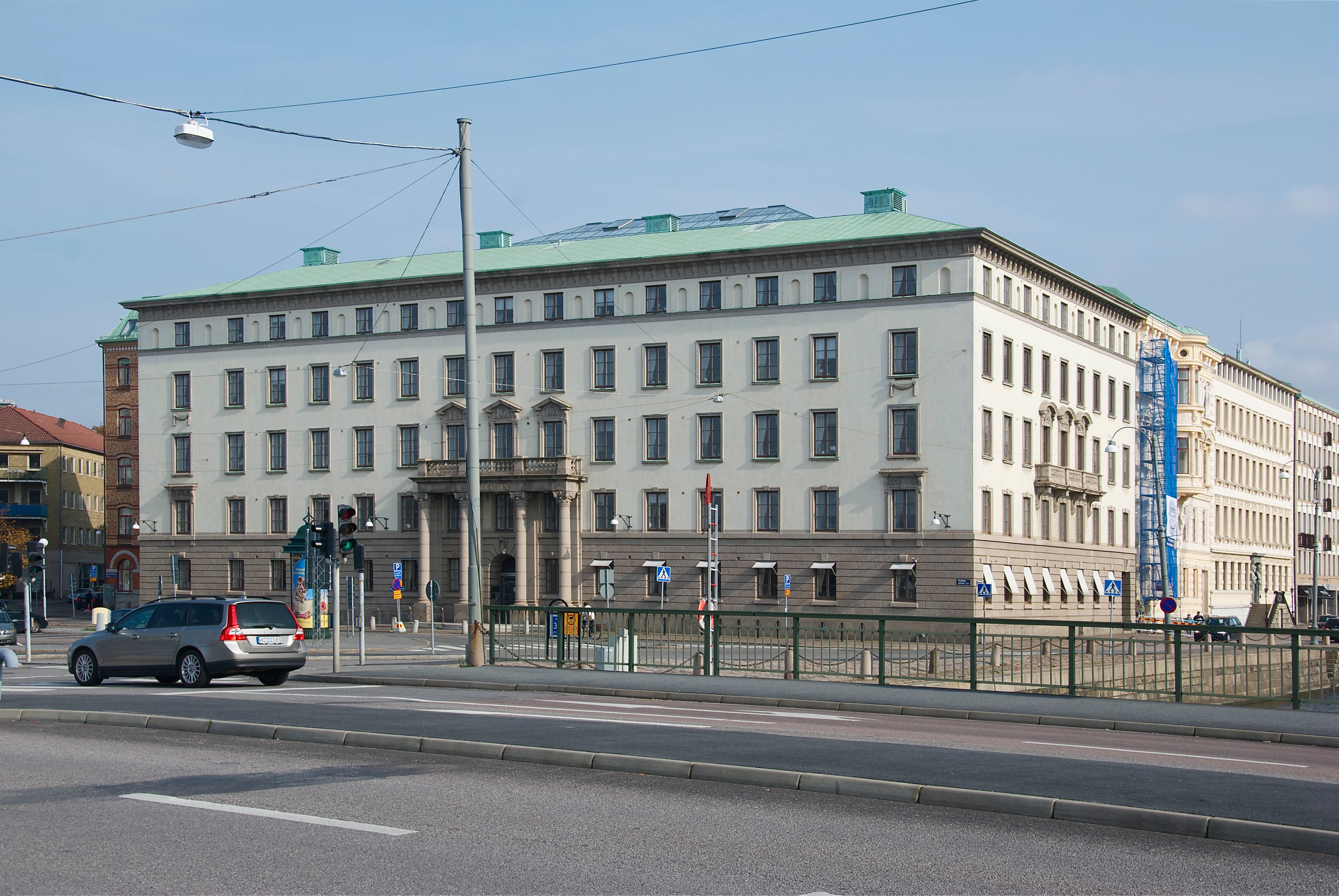 Hovrätten för västra Sverige (The Court of Appeal for Western Sweden) at Packhusplatsen in Gothenburg.